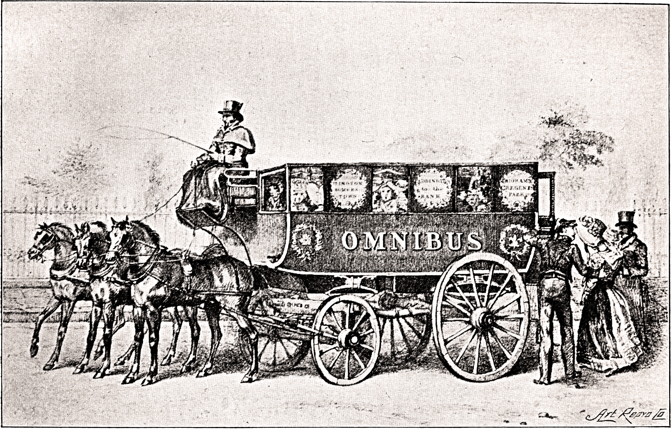 George Shillibeer's first omnibus p. 13 of Omnibuses and Cabs